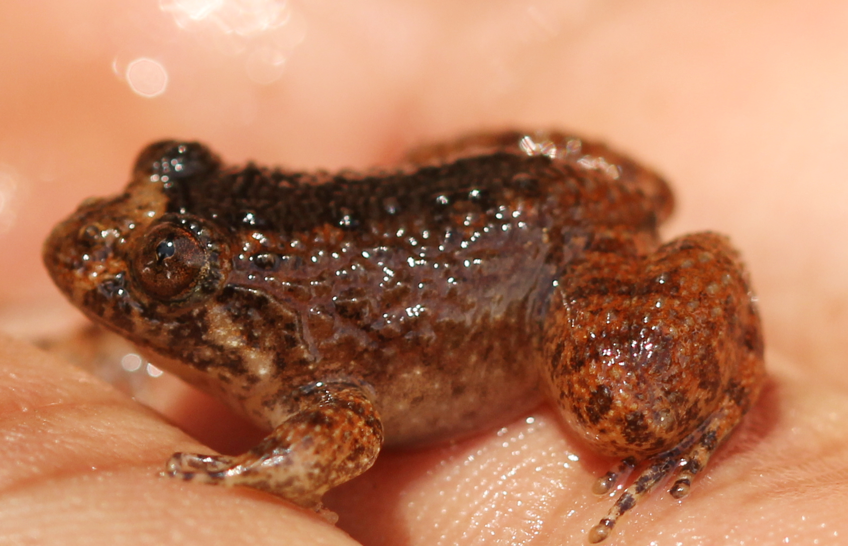 Kemphole night frog found at subramanya